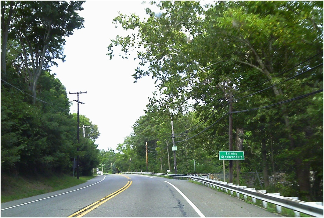 Eastbound New Jersey Route 57 approaching Stephensburg.